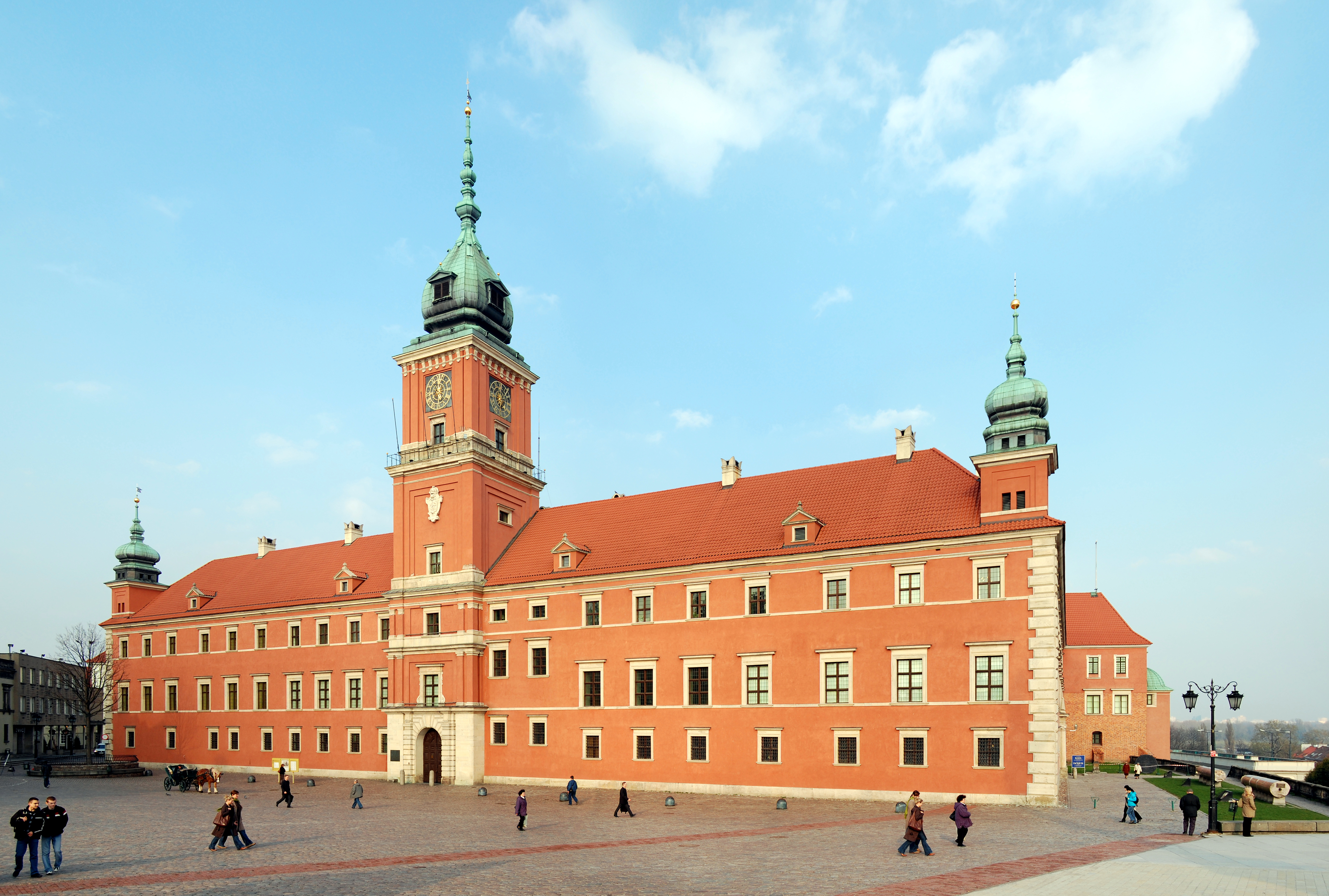 Royal Castle, Warsaw, Poland.